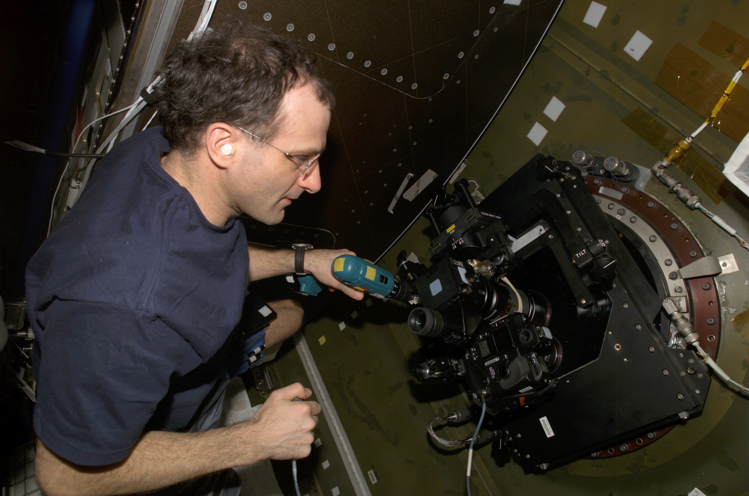 Astronaut Donald Pettit, Expedition 6 NASA science officer on the International Space Station (ISS), uses a barn door tracker to move a camera and its spotting scope. The camera is mounted on the nadir window in the Destiny laboratory on the ISS. Pettit is using a cordless drill to turn the screw that moves the camera and its spotting scope.